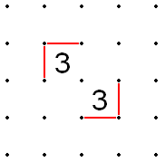 A partial [Slitherlink] game showing the knowledge gained from seeing two diagonally adjacent 3s.